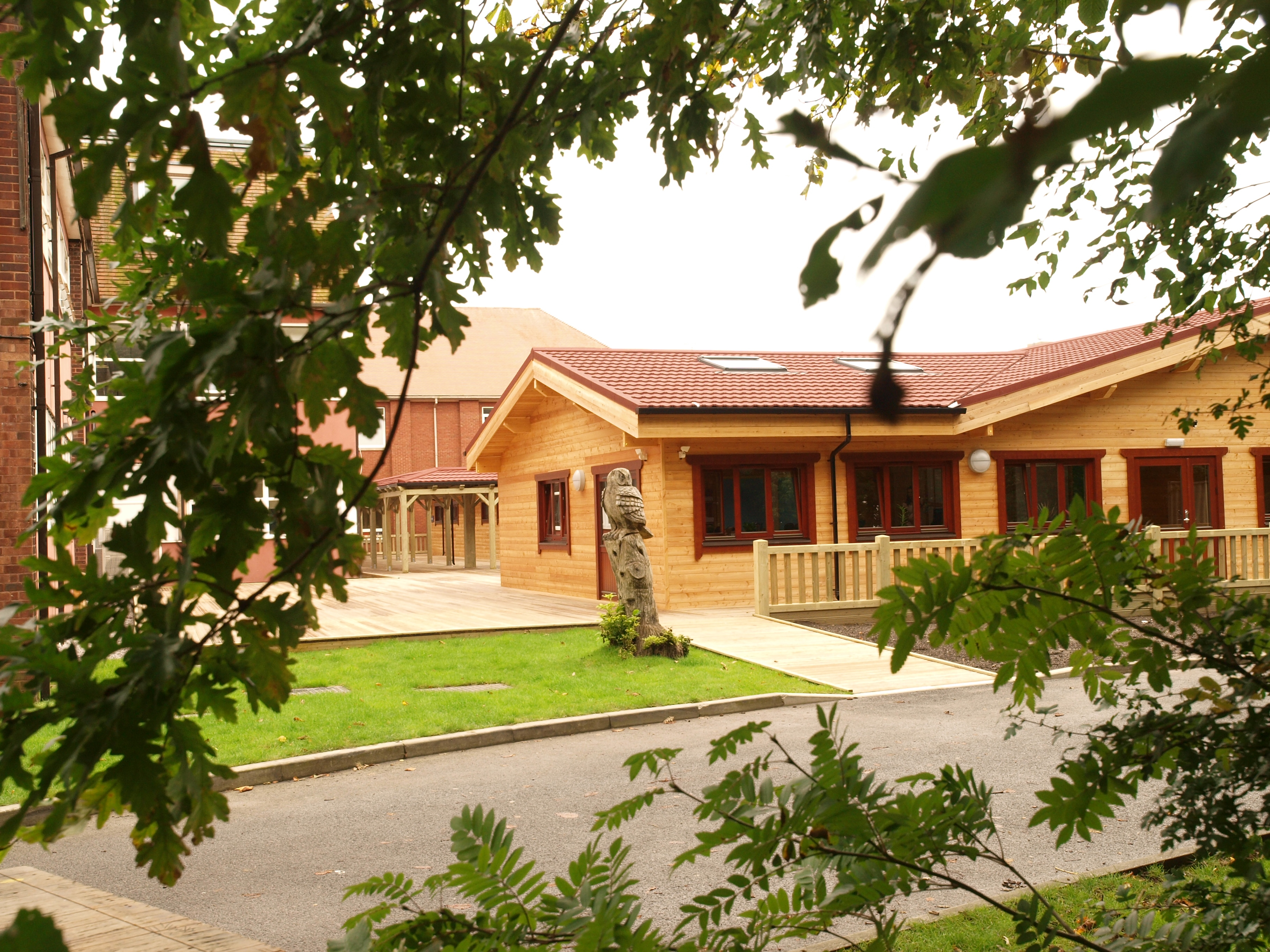 Bexwyke Lodge - home to a section of the MGS Junior School